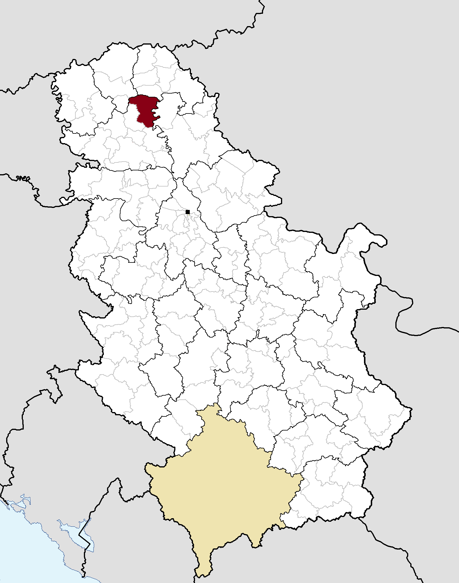 Municipal location in Serbia